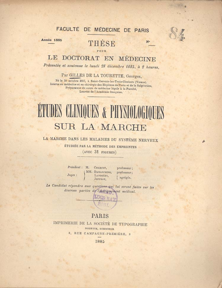 Georges Gilles de la Tourette: Études cliniques & physiologiques sur la marche (1885). Dissertation, Paris, 1885